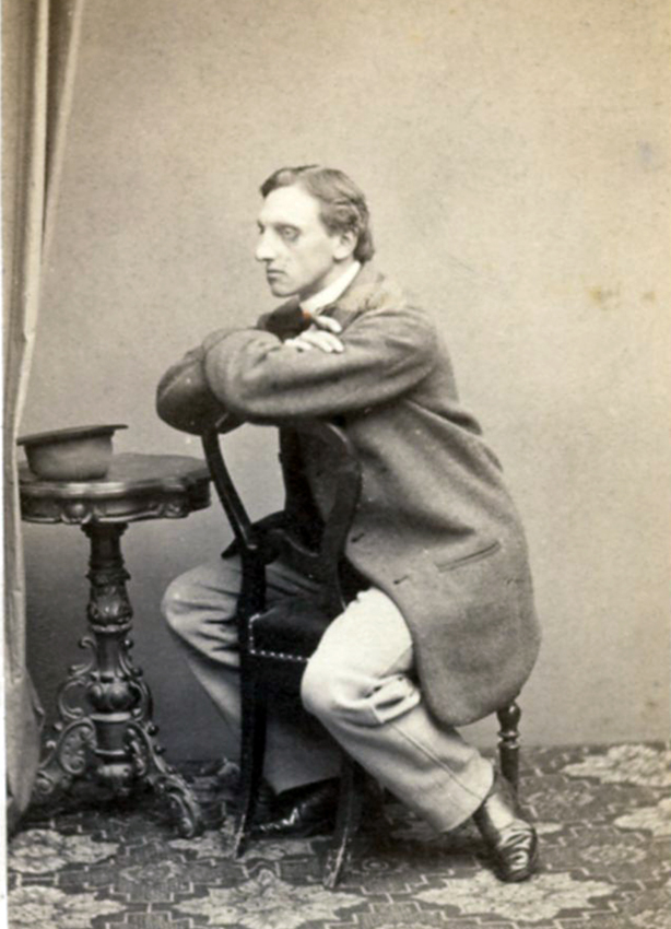 Ludwig von Gleichen-Rußwurm, cutout from a CdV